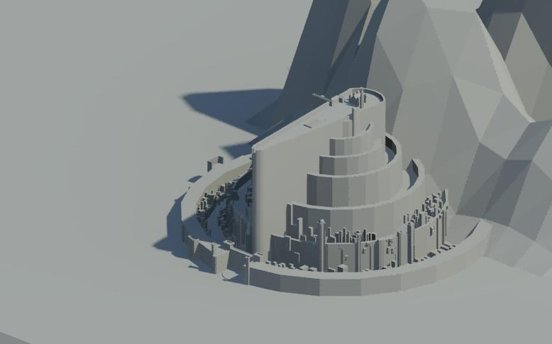 3D Rendering of Minas Tirith